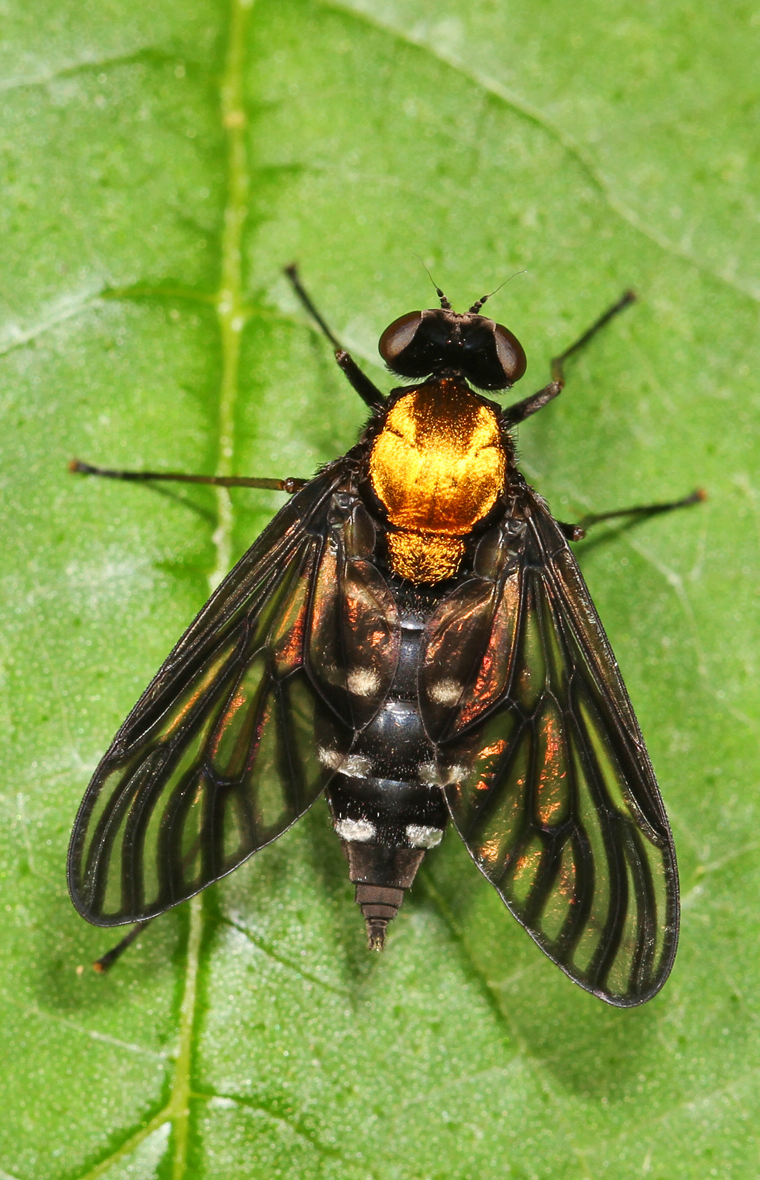 Golden-backed Snipe Fly - Chrysopilus thoracicus, Leesylvania State Park, Woodbridge, Virginia